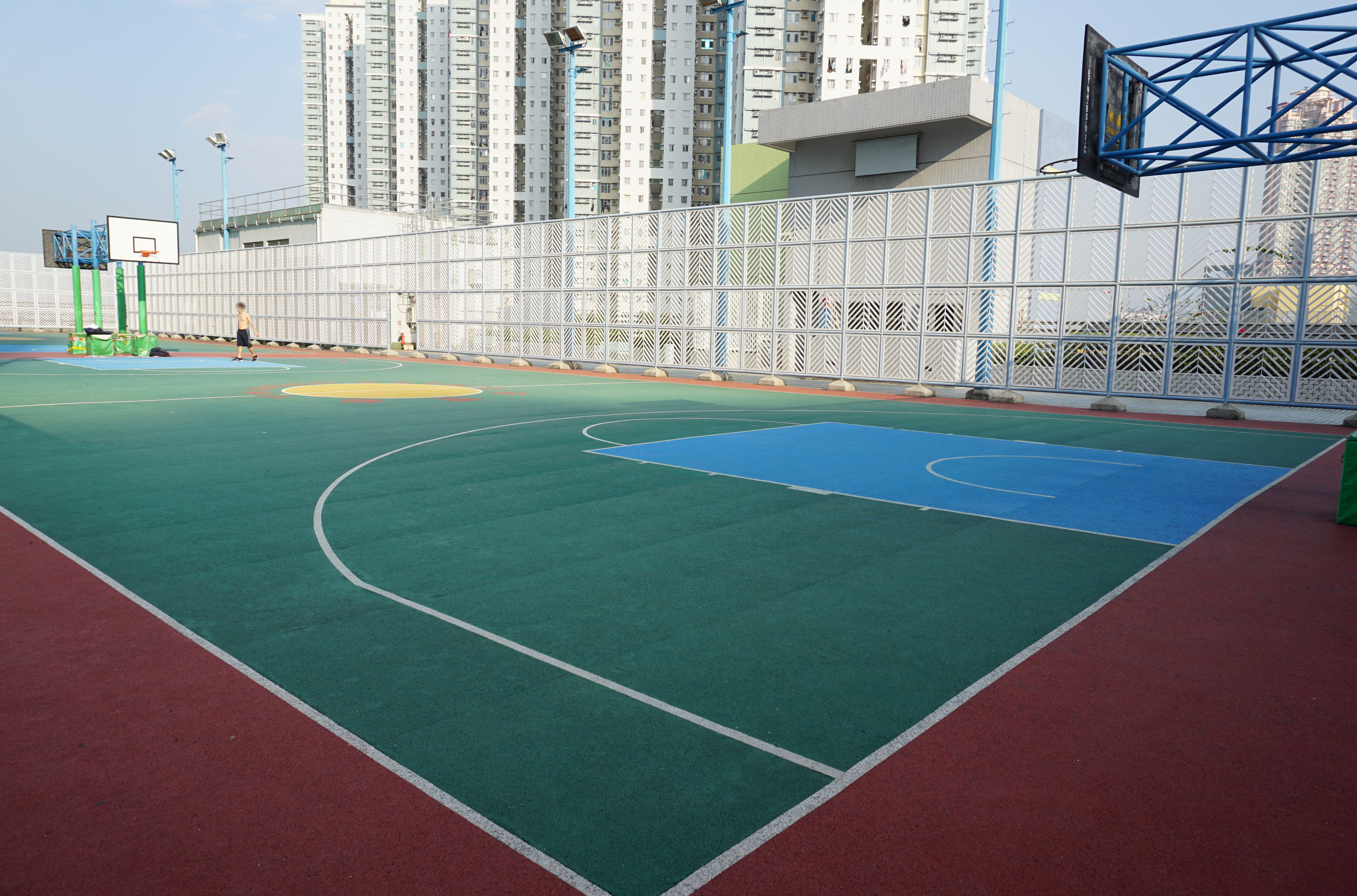 Tin Heng Estate in Tin Shui Wai, Hong Kong.